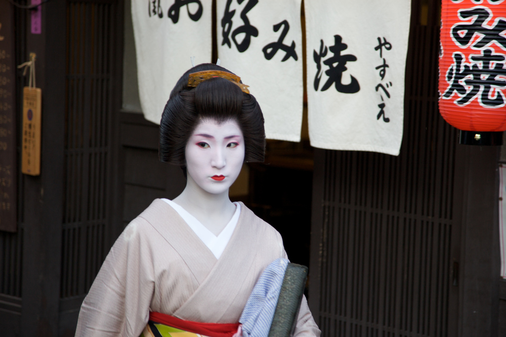 Ponticho geisha Hisano